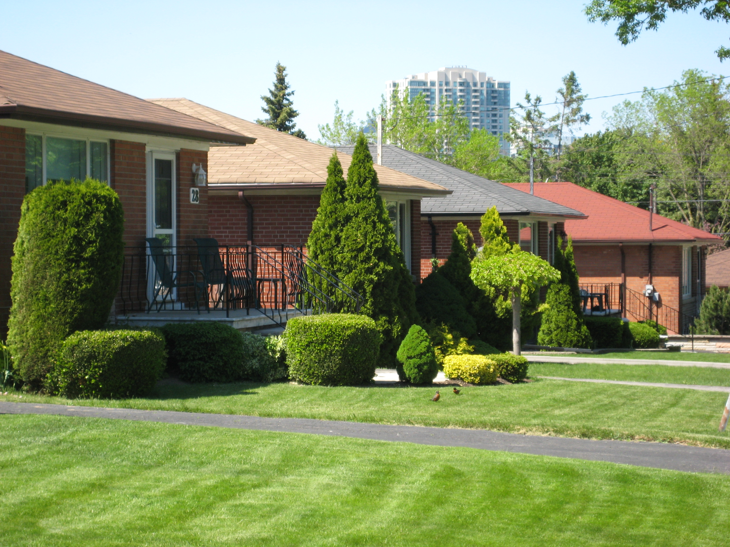 Houses in Bendale